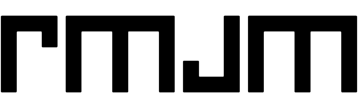 RMJM Logo Official Transparent - Official as of February 2016